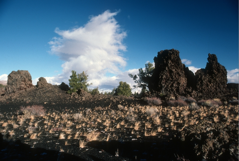 Devils Orchard - in: Craters of the Moon National Monument and Preserve, Idaho, USA